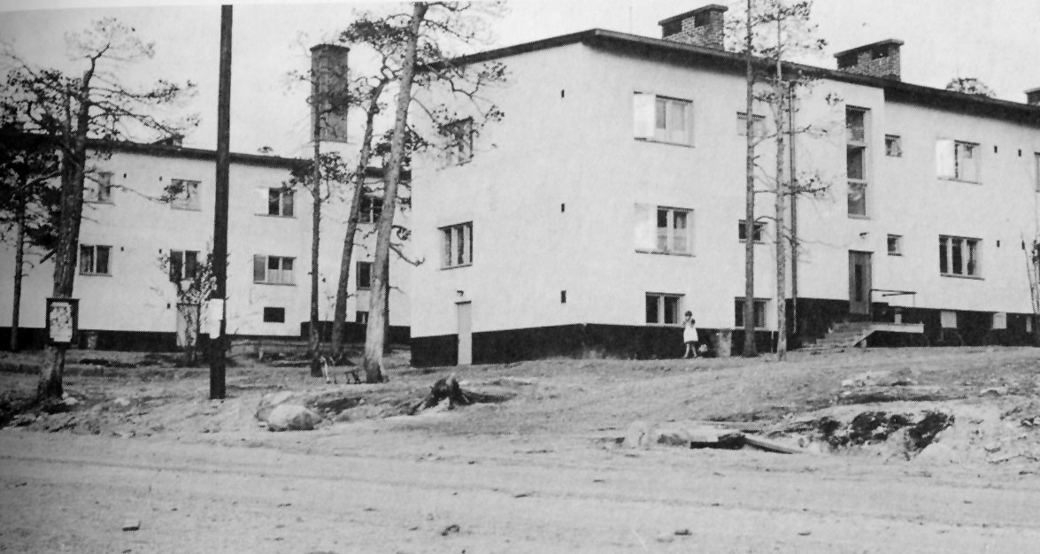 Modern residential houses in Kolosjoki, Petsamo, Finland during the late 1930's.